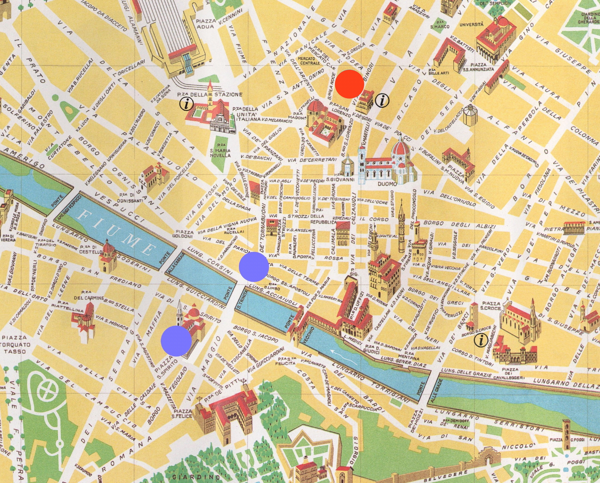 Map of central Florence. Del Giocondo and Gherardini homes marked. Please replace if you have more accurate information. This is a best guess.